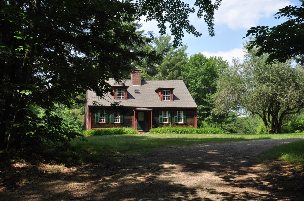 Chocorua Lake Basin Historic District, Tamworth, New Hampshire. Walley Cottage (c. 1791), 420 Chocorua Lake Road.